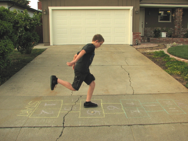 Boy playing hopscotch on a numbered, chalk-drawn hopscotch court in a driveway.